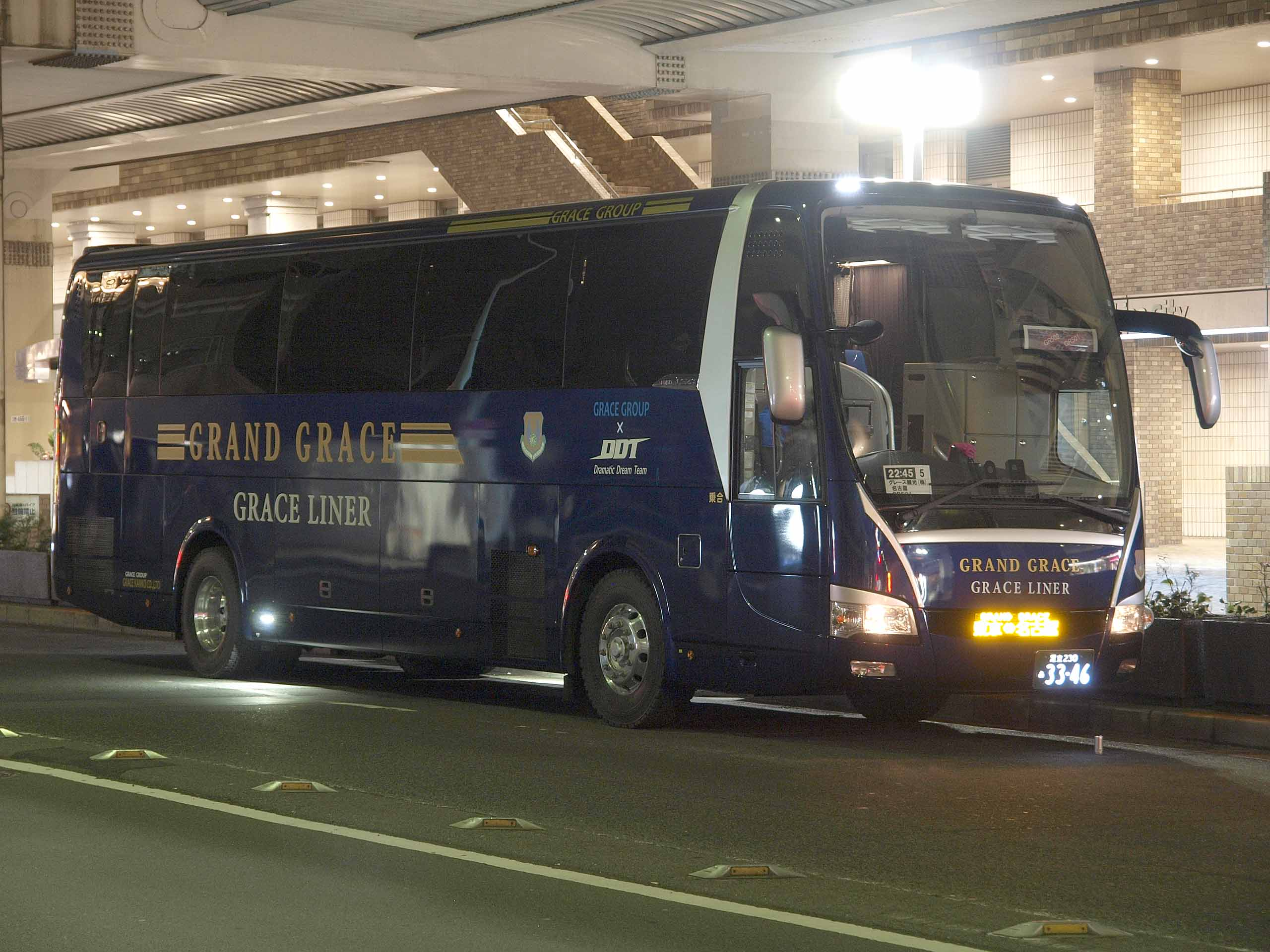 Fleet of Grace Liner, operated by Grace Kanko. Model: Mitsubishi Fuso Aero Queen MS06GP License plate: TKA230 A3346 Place: Sunshine City, Higashi-Ikebukuro, Toshima ward, Tokyo Japan